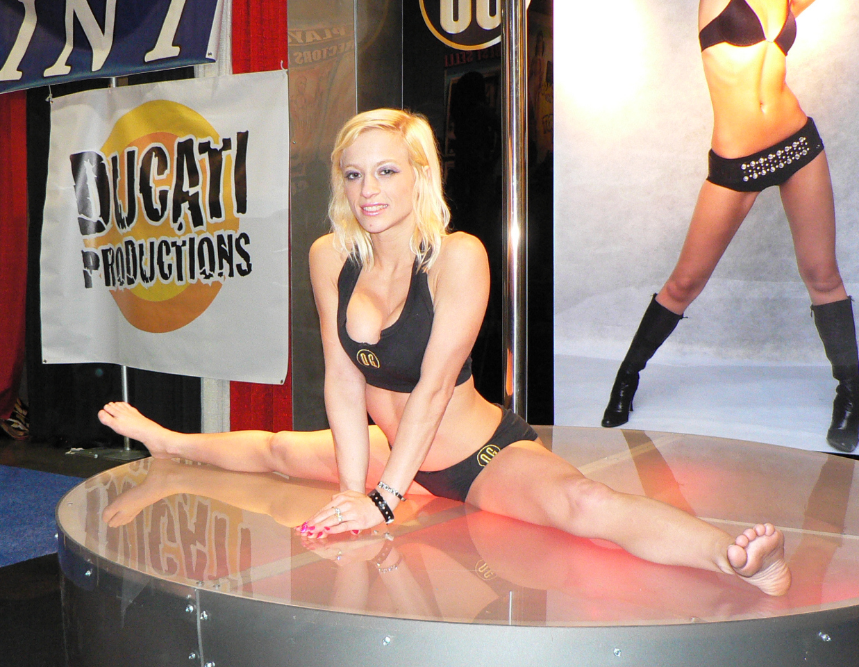 Unknown model at 2007 Las Vegas Adult Entertainment Expo.